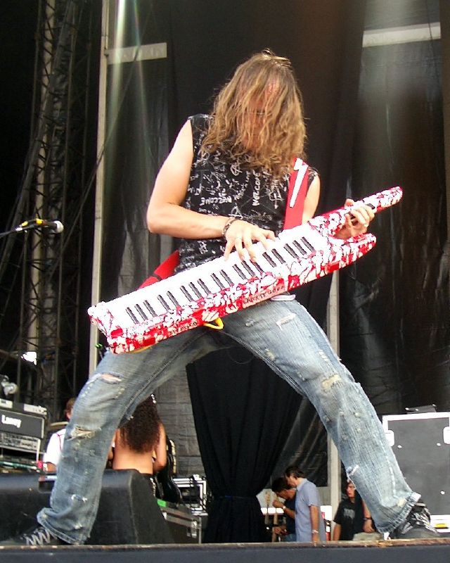 Vadim Pruzhanov, keyboardist from DragonForce during Ozzfest 2006.